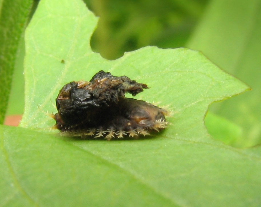 Golden tortoise beetle, Charidotella sexpunctata, larva with fecal shield, on bindweed. Pennypack Restoration Trust, Montgomery County, Pennsylvania, USA.